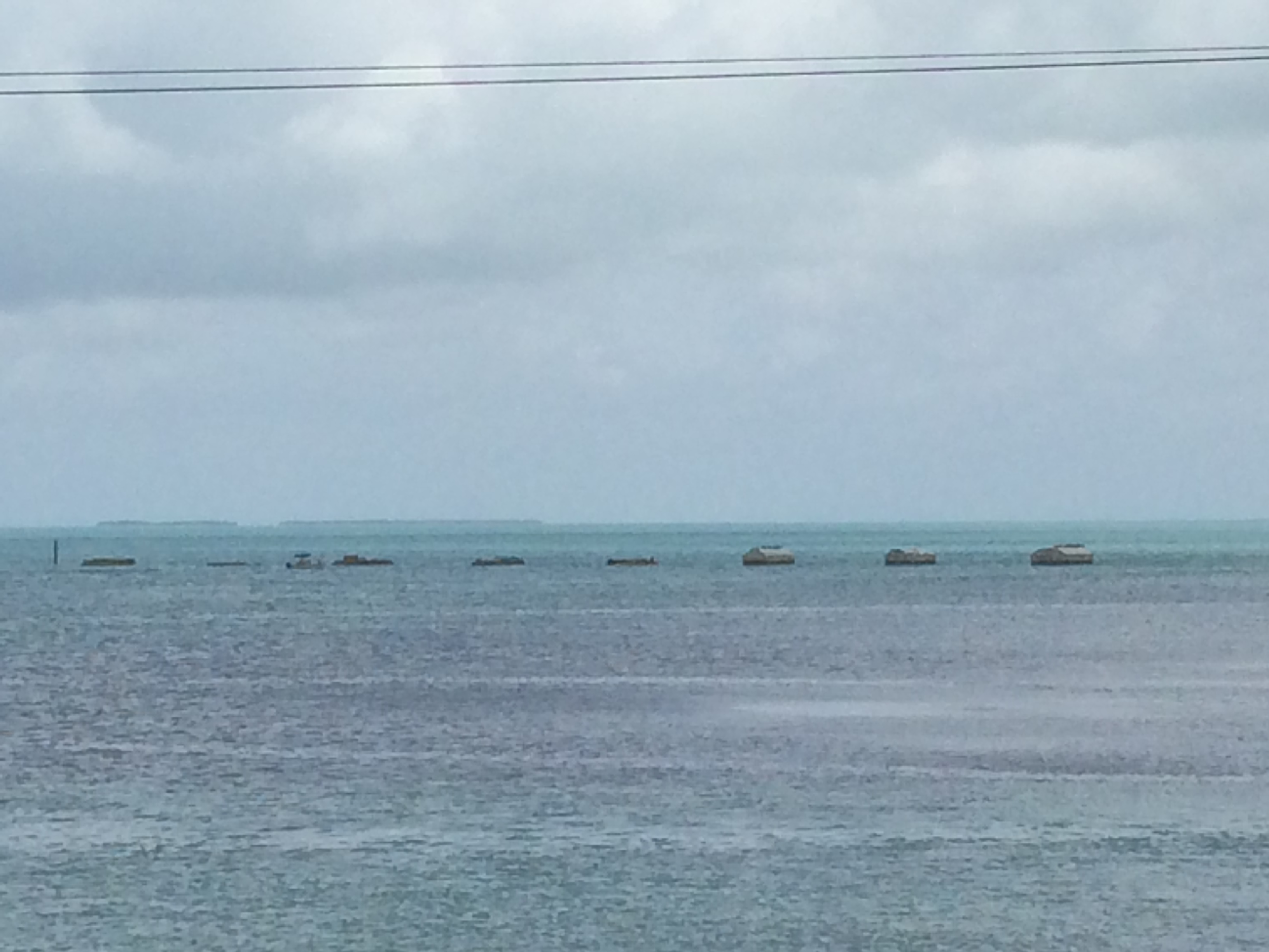 8 Bridge piers that would have supported the original alignment of the Overseas highway. They serve as a memorial to Veterans who built them who were killed in the Labor Day Hurricane of 1935.